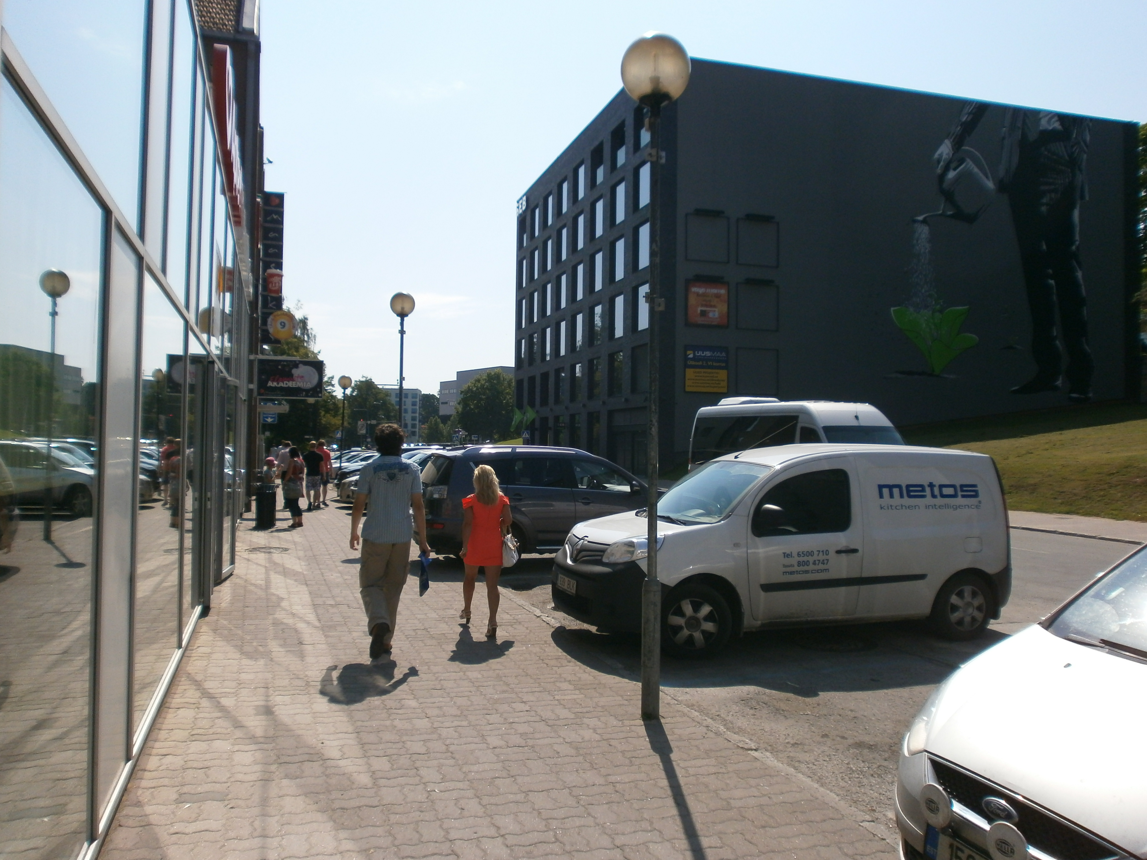 Tartu downtown